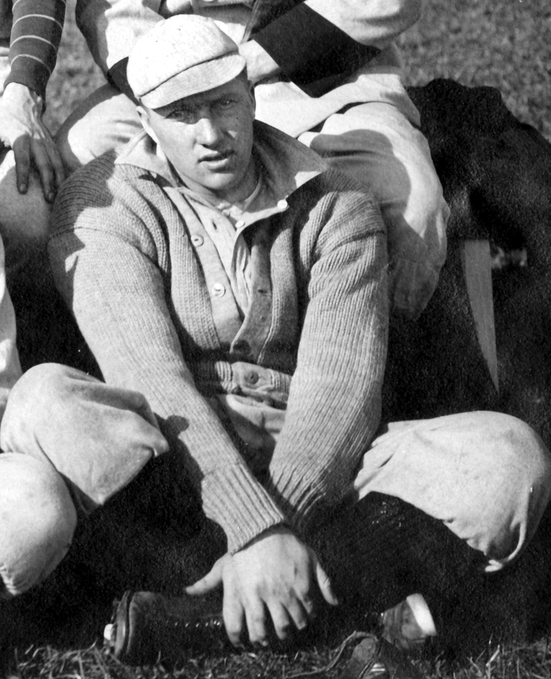 Photograph of pitcher Herbert Sylvester Sincock